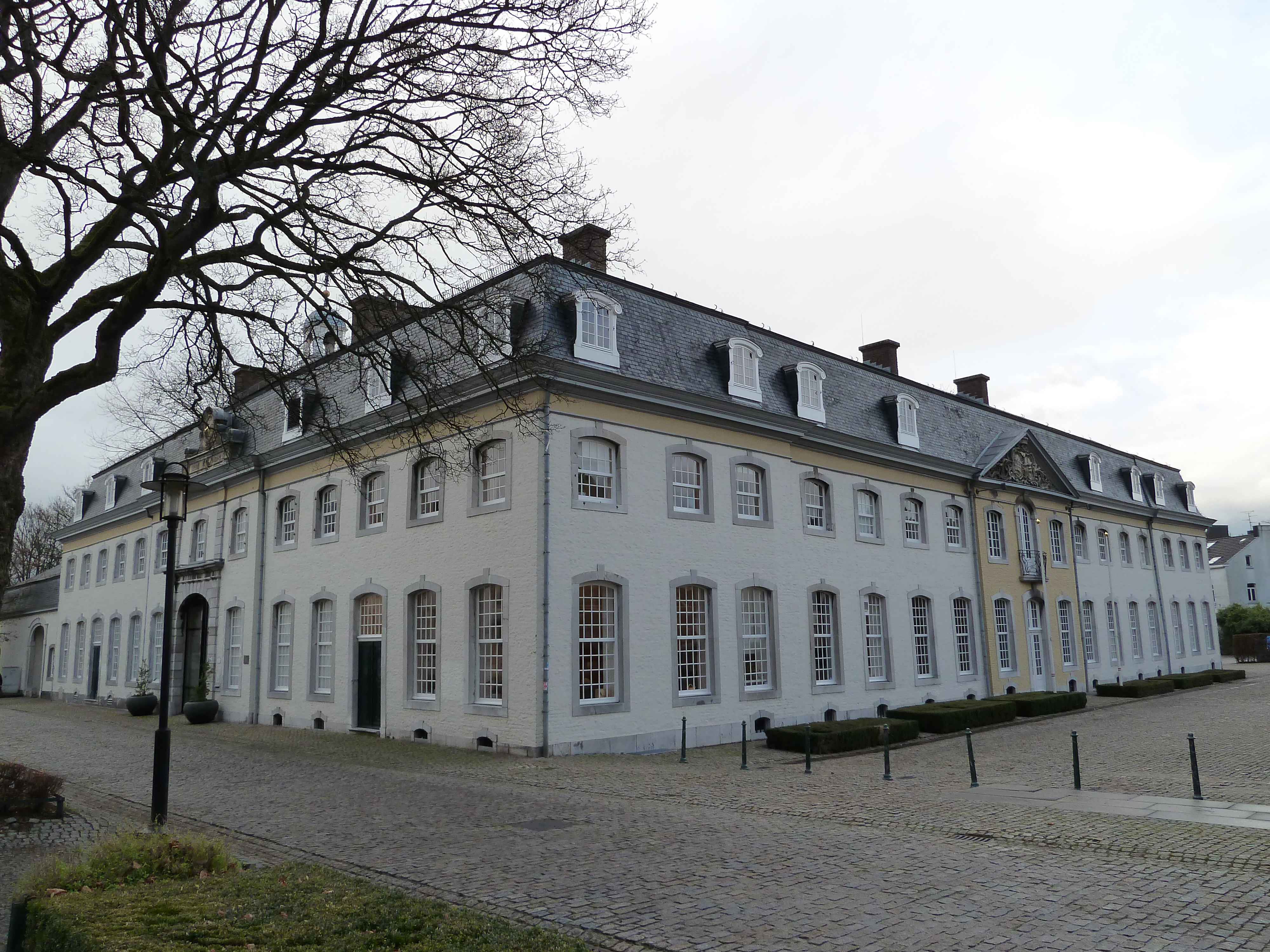 Von Clermontplein 15, Vaals, Limburg, the Netherlands